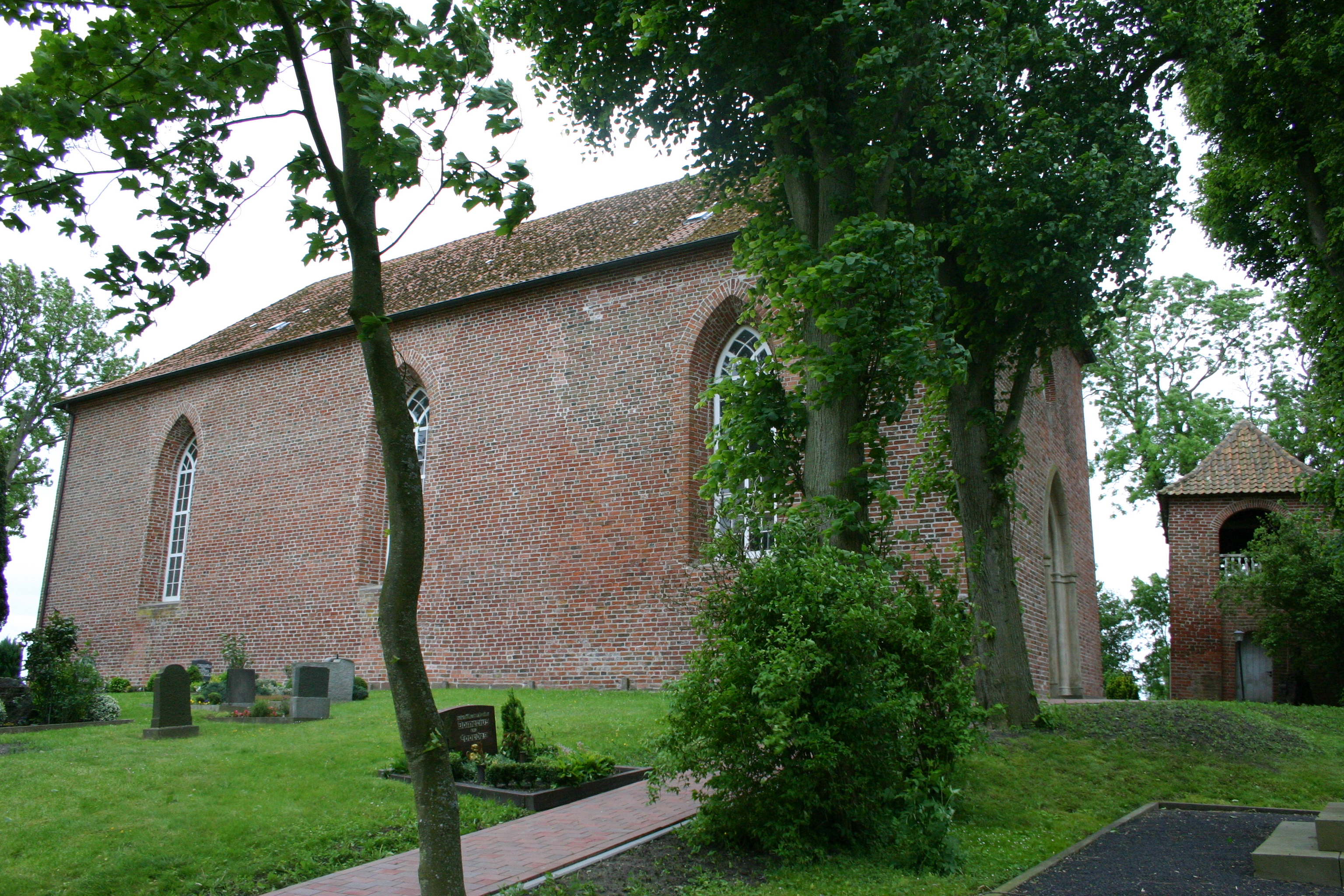 Historic church in Eggelingen, district of Wittmund, East Frisia, Germany